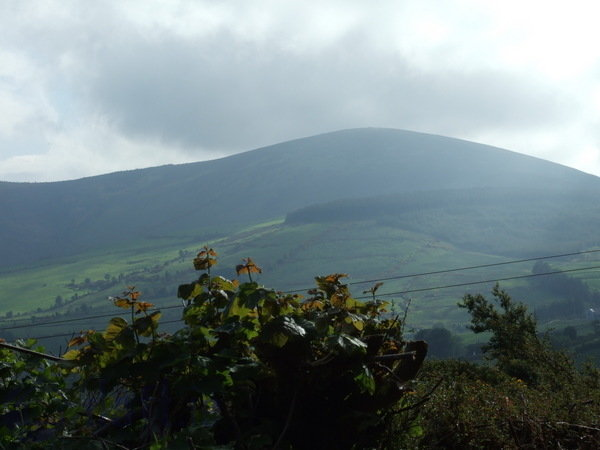 view of mautherslieve from Curreeny Church. provides a view of the local terrain in Curreeny